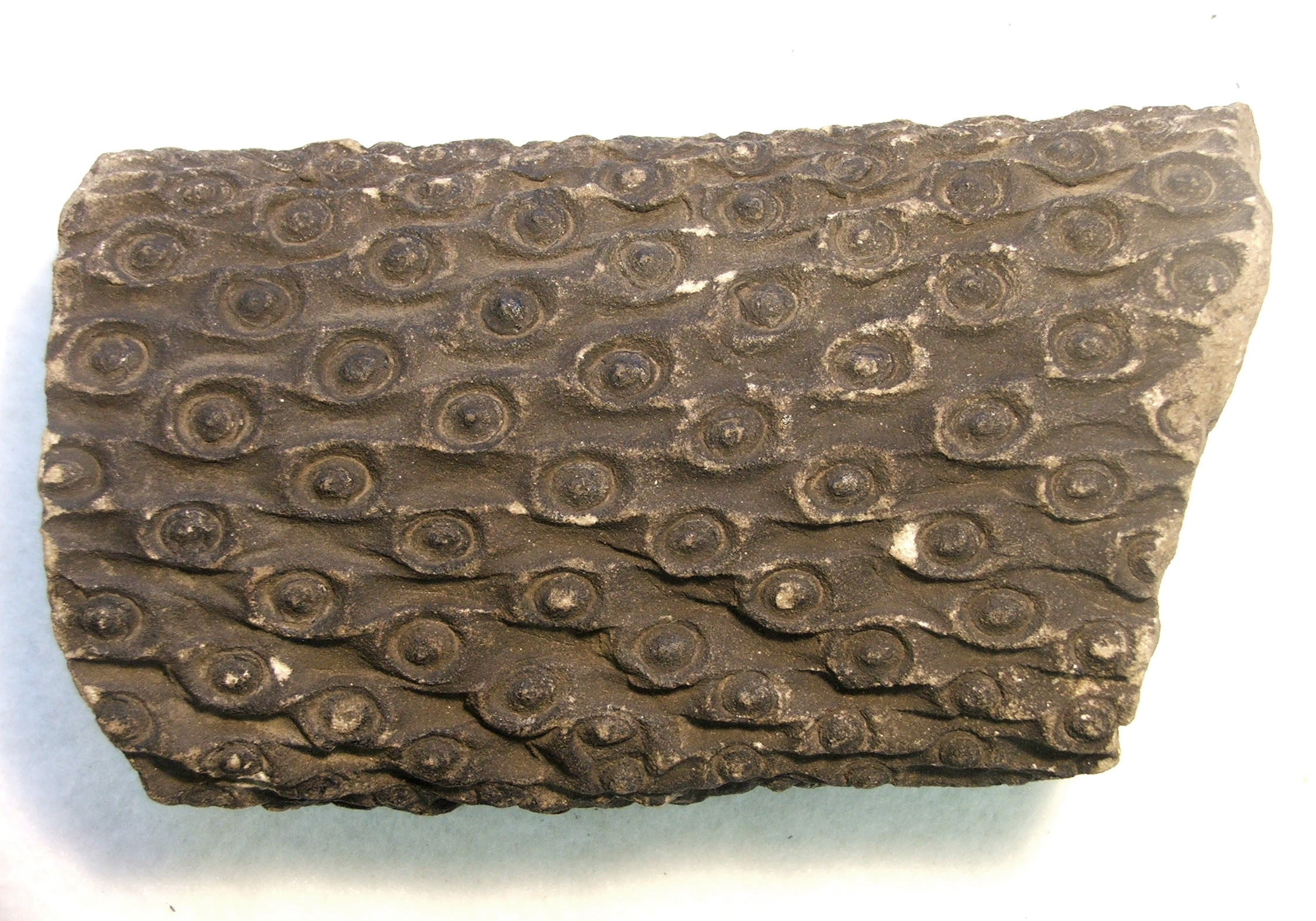 "Root" of "Lepidodendron" - top view